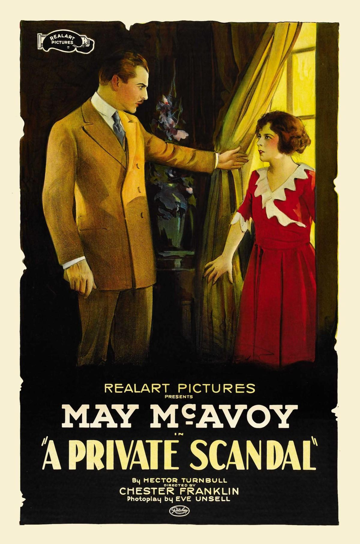 Poster for the American film A Private Scandal (1921) with May McAvoy.